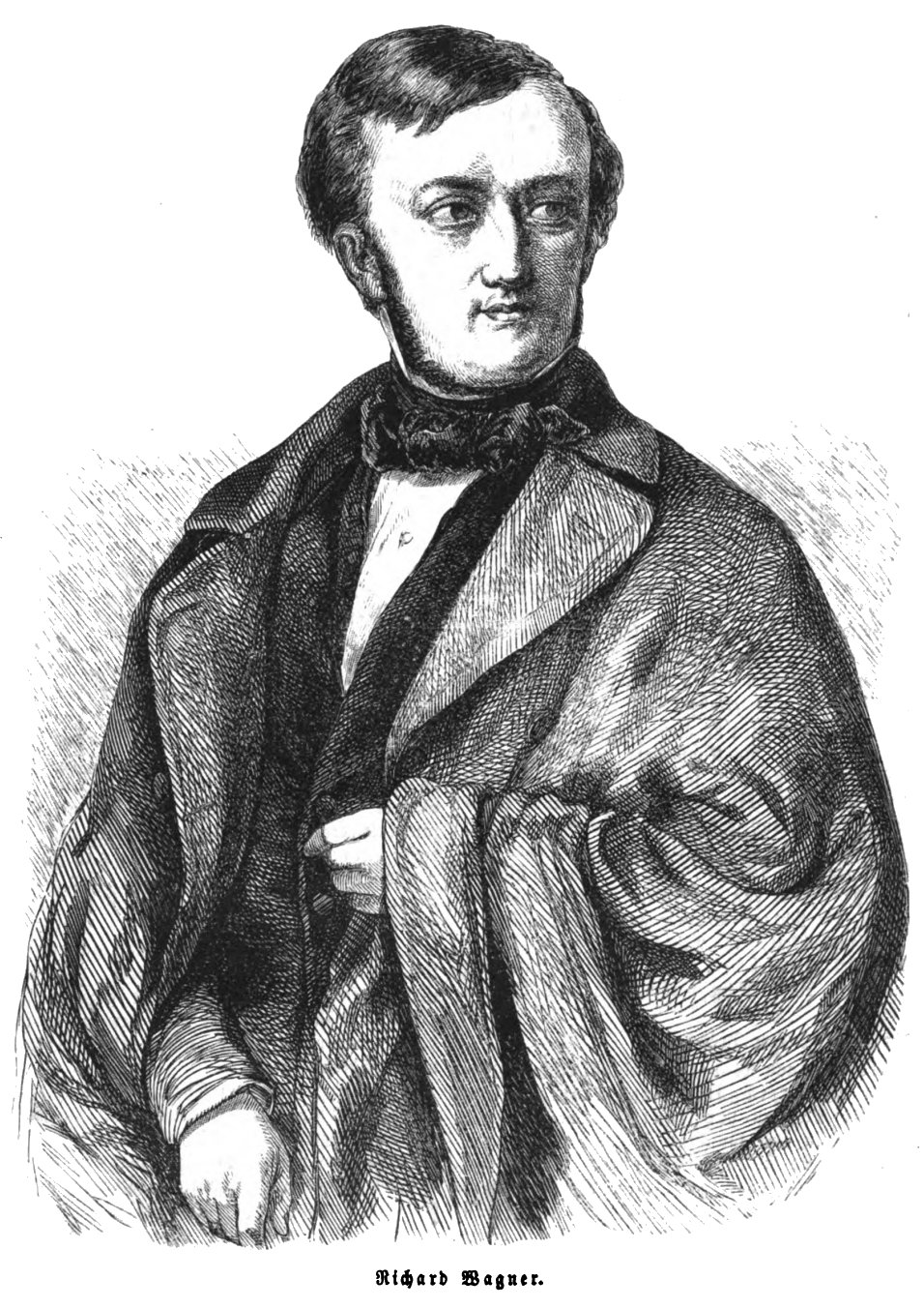 caption: "Richard Wagner."